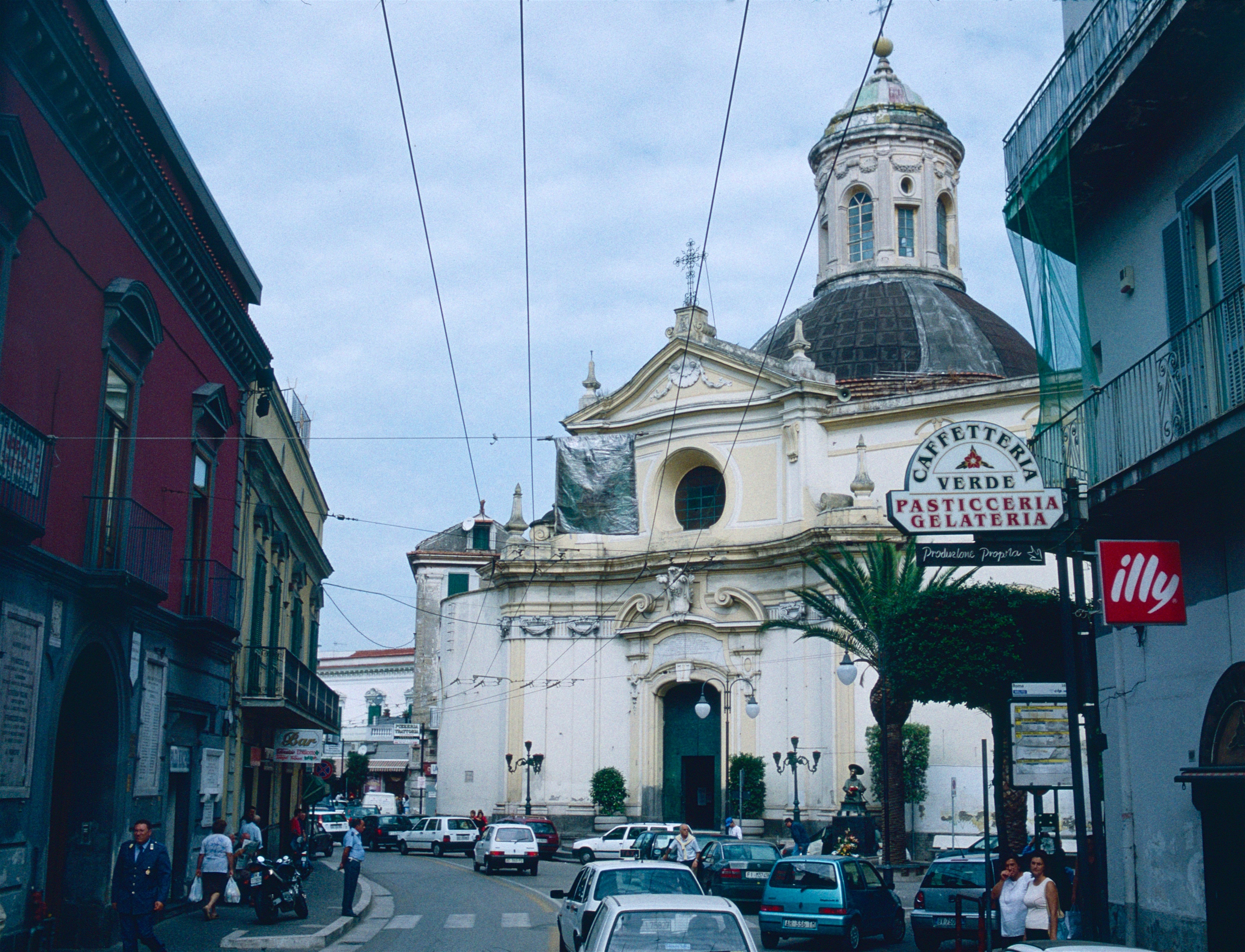 Santa Maria delle Grazie Church in Melito di Napoli, Italy.